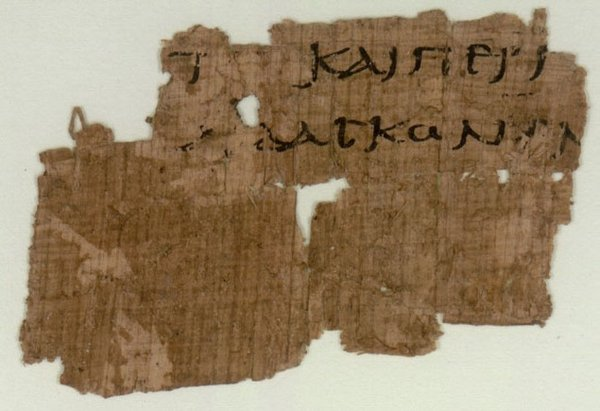 Papyrus 102 recto (Matthew 4:22-23)